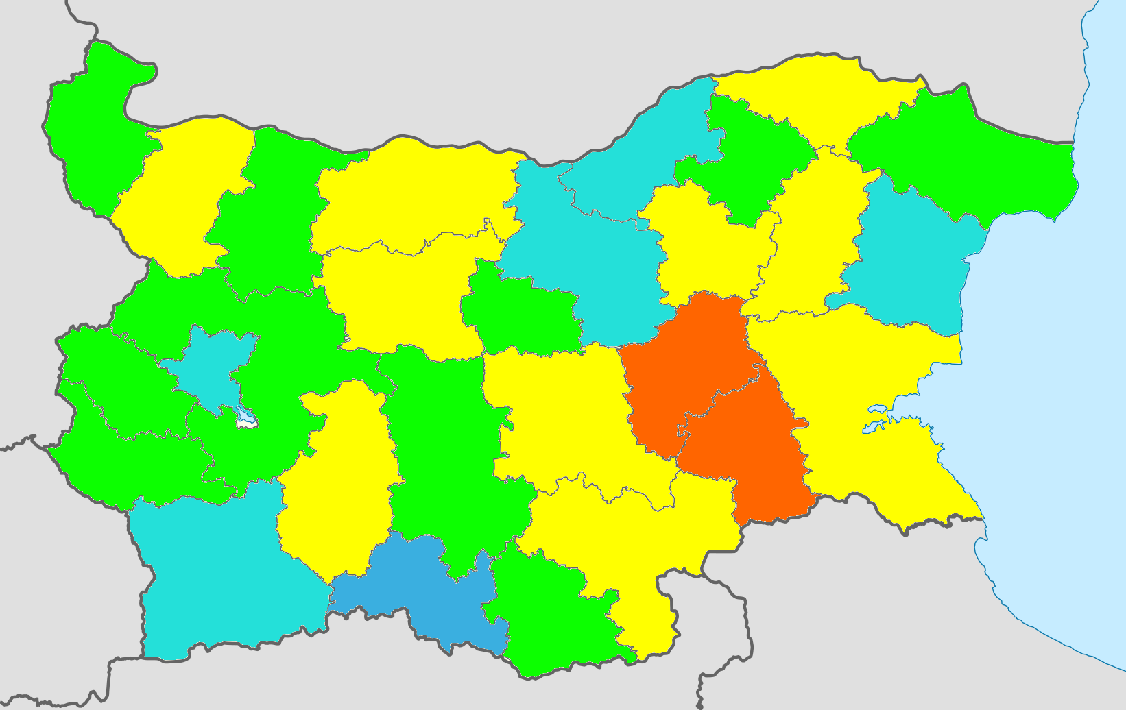 Bulgaria total fertility rate by region. Data is from REPUBLIC OF BULGARIA National statistical institute